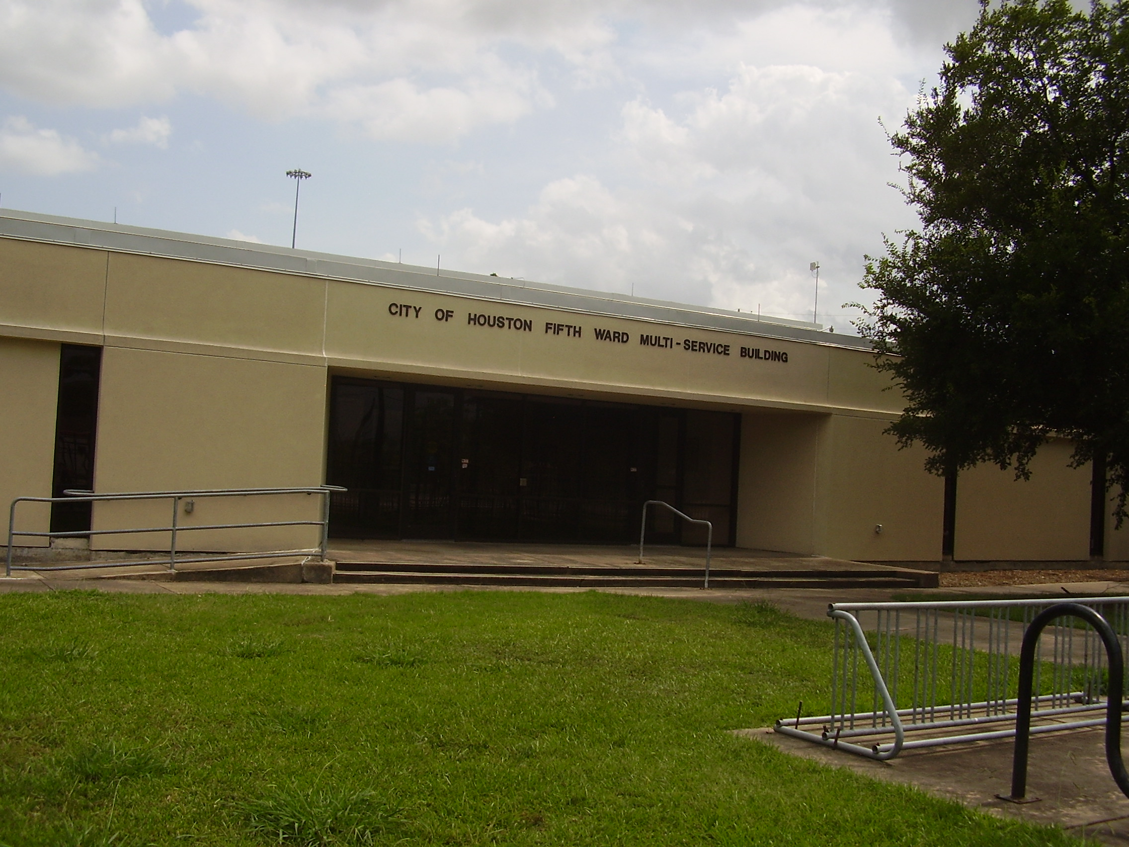 Fifth Ward Multi-Service Center, including the Fifth Ward Library